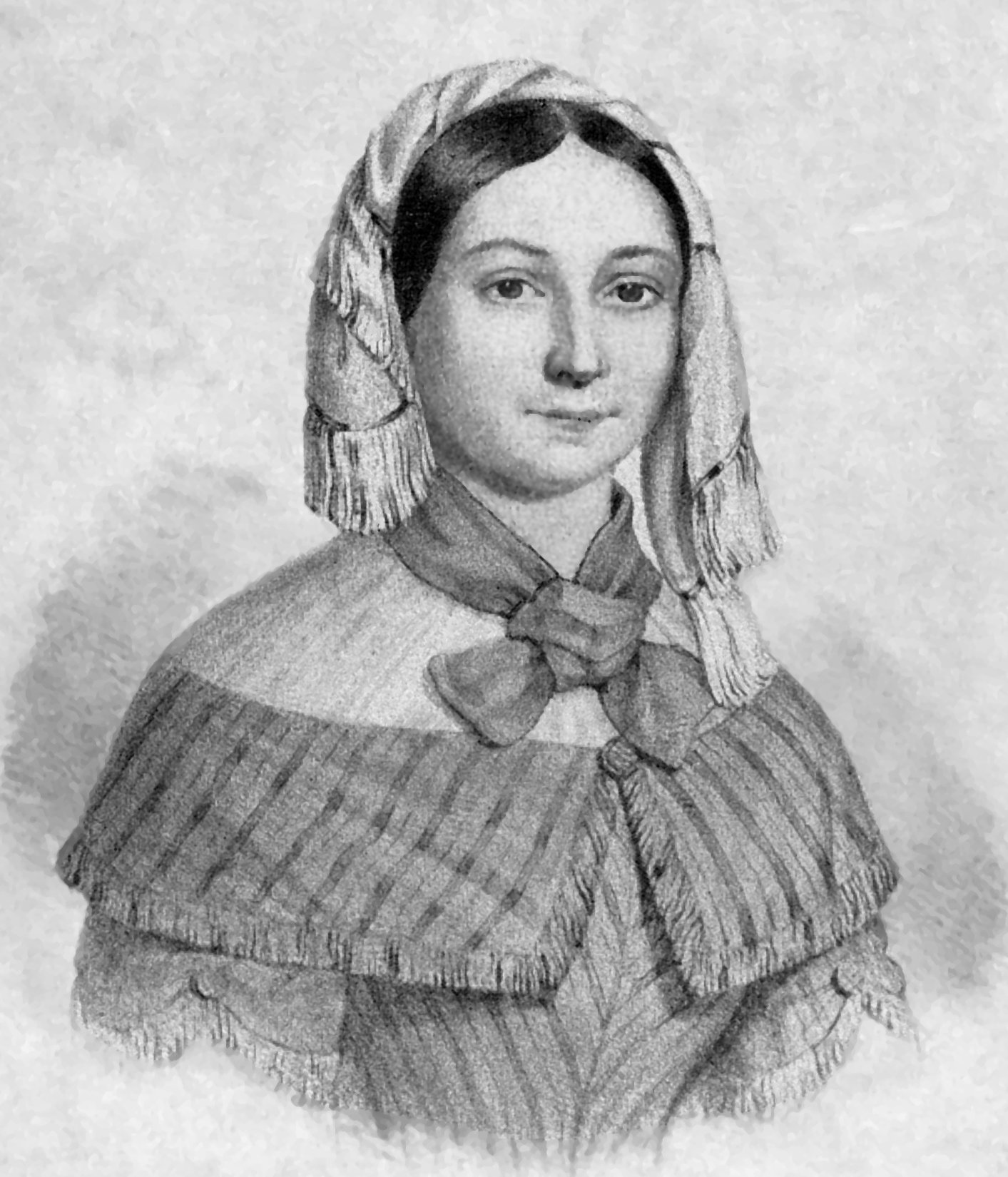 Emilia Flygare-Carlén.